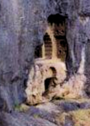 Lenyadri Suleman caves Second group Chaitya